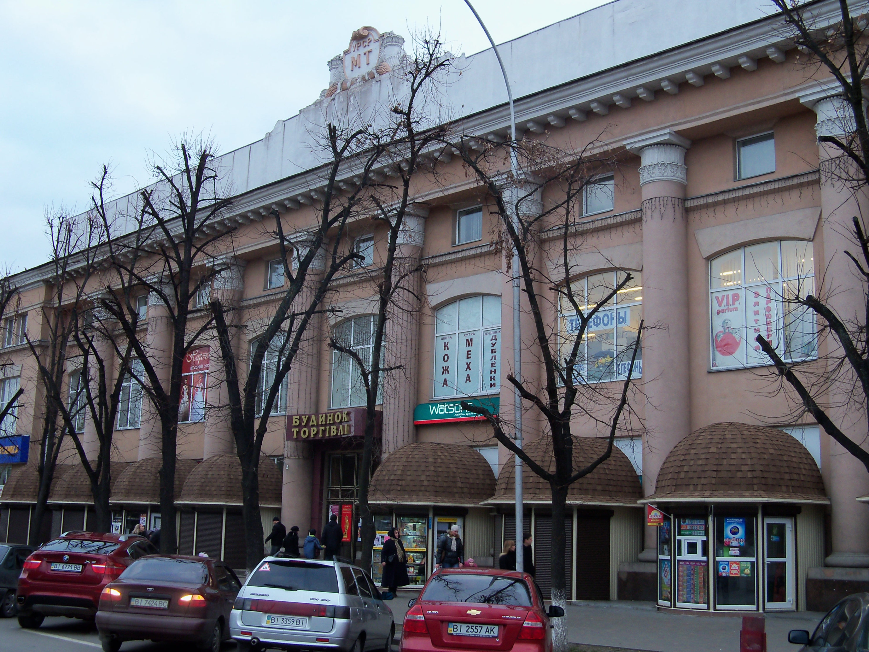 Kremenchuk trade building